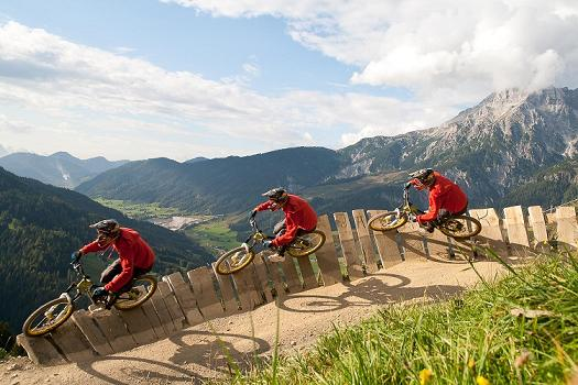 Freeride in Leogang (austria)